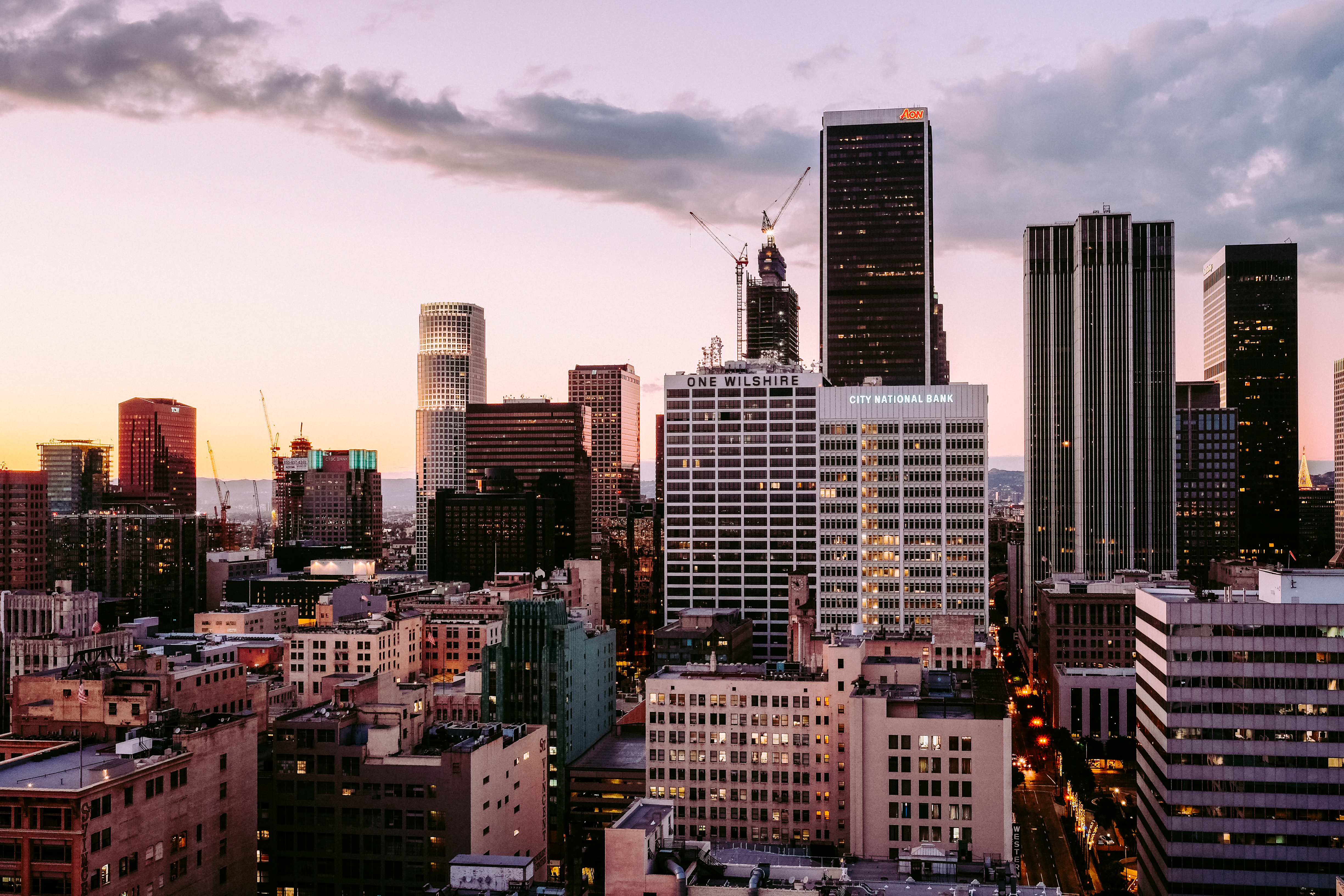 One Wilshire Building, Los Angeles, United States